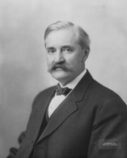 Albert B. Cummins, a Senator from Iowa; born near Carmichaels, Greene County, Pa., February 15, 1850; attended the public schools, and a preparatory academy; graduated Waynesburg (Pa.) College in 1869; moved to Iowa; briefly engaged as a carpenter; clerked in the office of the recorder of Clayton County; moved to Allen County, Indiana in 1871 where he became deputy county surveyor and engaged in railroad building; moved to Chicago to study law; admitted to the Illinois bar in 1875 and commenced practice in Chicago; returned to Des Moines, Iowa, in 1878, where he continued the practice of law; member, State house of representatives 1888-1890; unsuccessful candidate for election to the United States Senate in 1894 and 1900; member of the Republican National Committee 1896-1900; Governor of Iowa 1902-1908, when he resigned, having been elected Senator; elected as a Republican to the United States Senate in 1908 to fill the vacancy caused by the death of William B. Allison; reelected in 1909, 1914, and again in 1920, and served from November 24, 1908, until his death on July 30, 1926; unsuccessful candidate for renomination in 1926; served as President pro tempore of the Senate during the Sixty-sixth through the Sixty-ninth Congresses; chairman, Committee on Civil Service and Retrenchment (Sixty-first and Sixty-second Congresses), Committee on the Mississippi River and its Tributaries (Sixty-third through Sixty-fifth Congresses), Committee on Interstate Commerce (Sixty-sixth and Sixty-seventh Congresses), Committee on Judiciary (Sixty-eighth and Sixty-ninth Congresses); died in Des Moines, Iowa, July 30, 1926; interment in Woodland Cemetery.